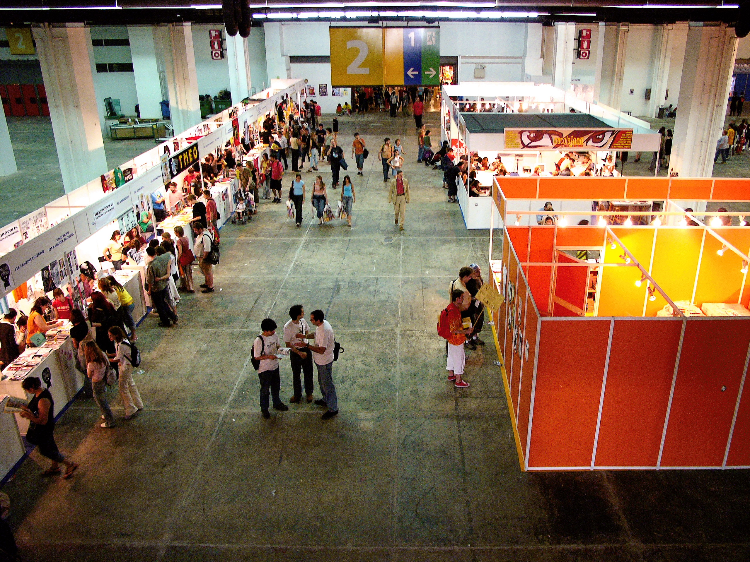 overview of 23rd Barcelona International Comic Fair, held June 9 to 12, 2005, in Hall 2 of Fira de Barcelona.